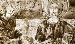 Fresco in Ascension of Jesus Frescohurch in Pravednik